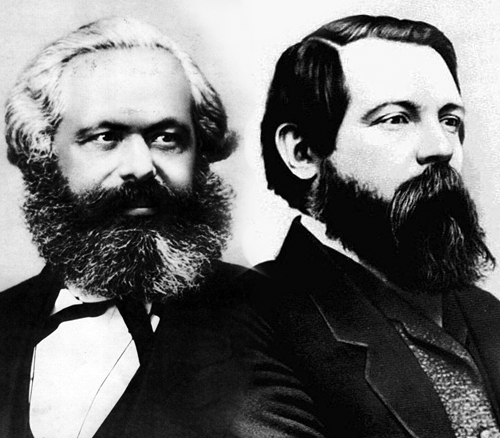 A montage of pictures of Karl Marx and Friedrich Engels. The photo of Friedrich Engels is flopped.